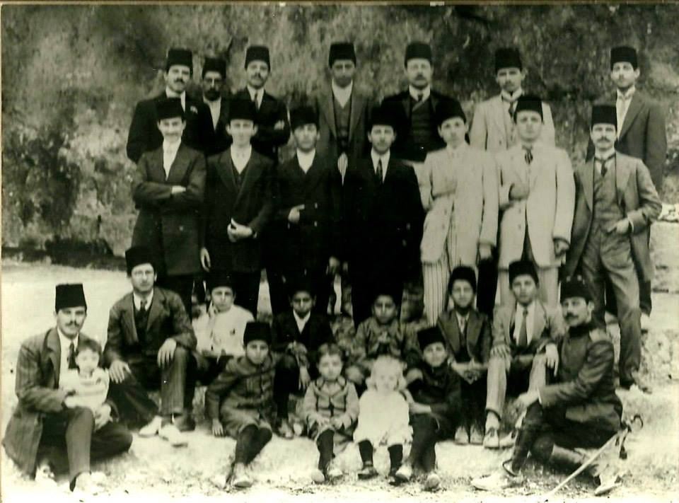 A group of Al-Husseinis and their friends at the Graves of the Sultans, Mamillah Cemetery, Jerusalem, c. 1912 — with Tewfiq Saleh Al-Husseini, Fahri Taher Al-Husseini, Dawood Saleh Al-Husseini, Helmi Salah Al-Husseini, Ahmed Zuhdi Al-Husseini, Al Haj Amin Al-Husseini, Burhan Taher Al-Husseini, Ibrahim Bek Al-Husseini, Taher Kamel Al-Husseini, Amin Rajai Said Al-Husseini, Khayri Fuad Al-Husseini, Jamil Bek Al-Husseini, Suleiman Saleh Al-Husseini, Ishaq Darwish, Jawad Bek Ismail Al-Husseini, Munir Darwish, Yacoub Saleh Al-Husseini, Ibrahim Darwish, Jawdat Darwish, Farid Abdel Salam Al-Husseini and Jamal Tuqan Al-Husseini.